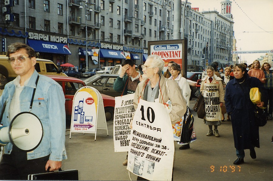 A demonstration against "psychotronic weapons" on the streets of Moscow. Some folks could be suffering from delusions, yet some may just happen to beleive in the existence of mind control weapons. There are lots of strange belief systems in this world.. See also the second snapshot.